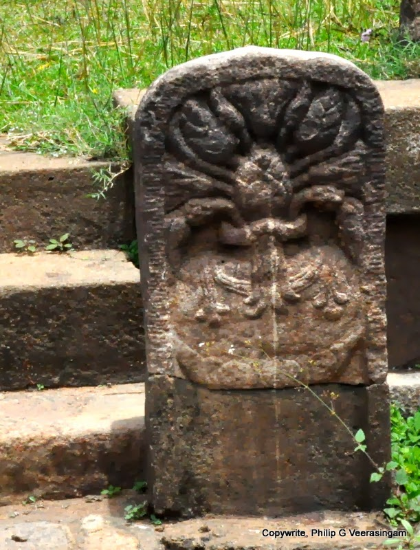 The second Moonstone variety